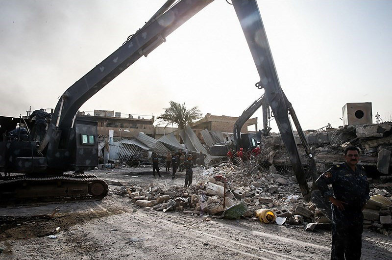 Liberation of Fallujah by Iraqi Armed Forces and The People's Mobilization (Shi'a militias)